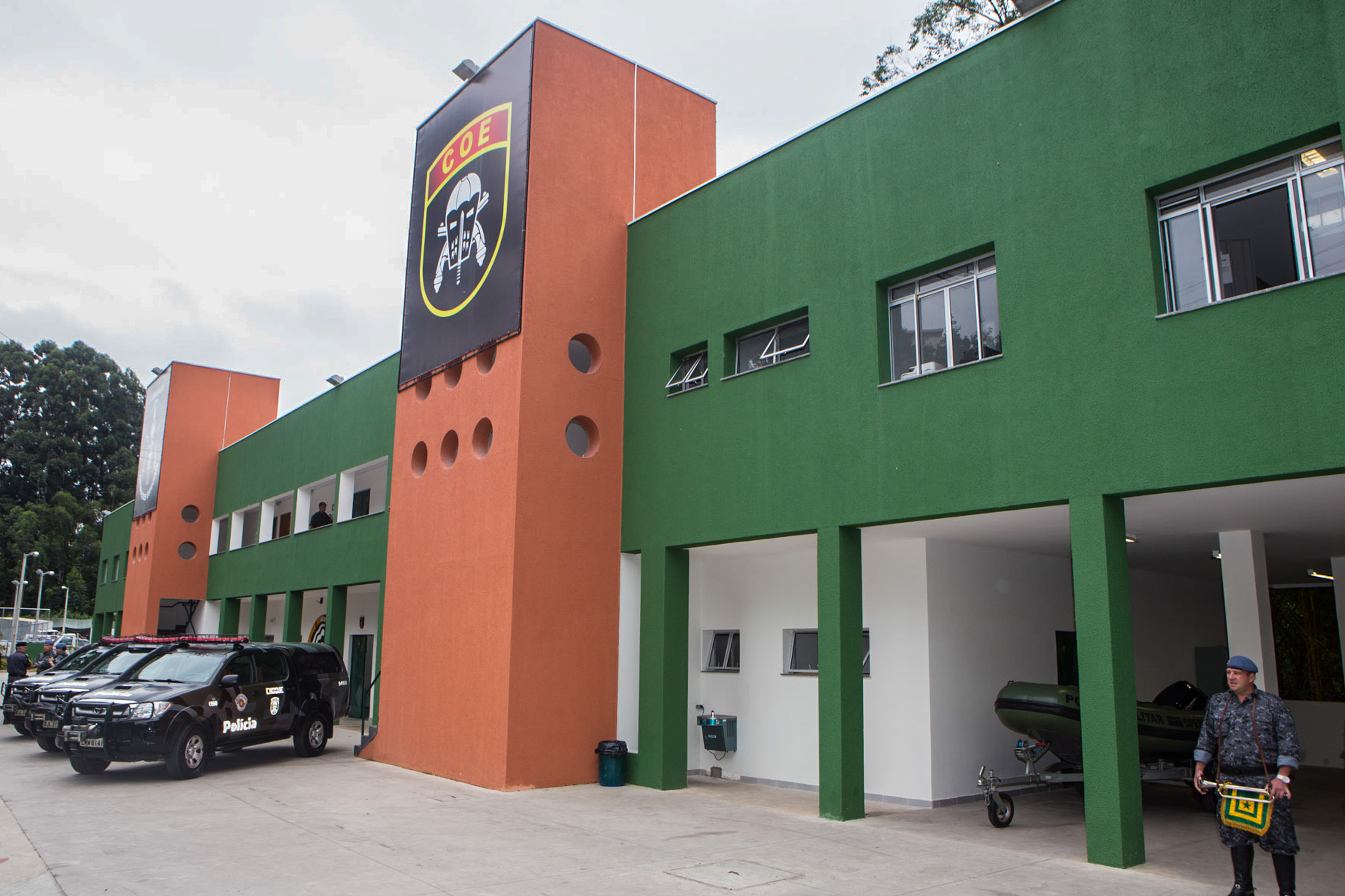 O Governador Geraldo Alckmin, visita as novas instalaçoes do Comando de Operações Especiais da PMESP. Data: 19/05/2015. Local: São Paulo/SP.Foto: Du Amorim/A2 FOTOGRAFIA